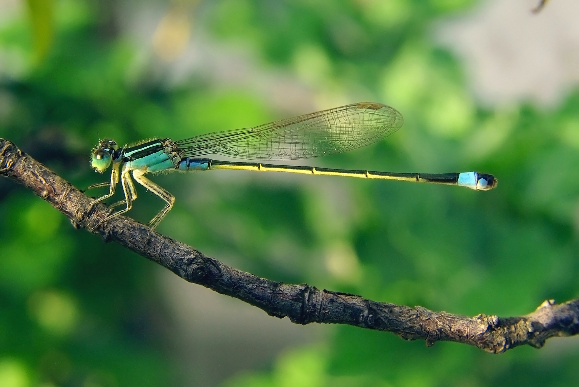 Common Bluetail, a widespread damselfly in Africa, the Middle East, Southern and Eastern Asia.